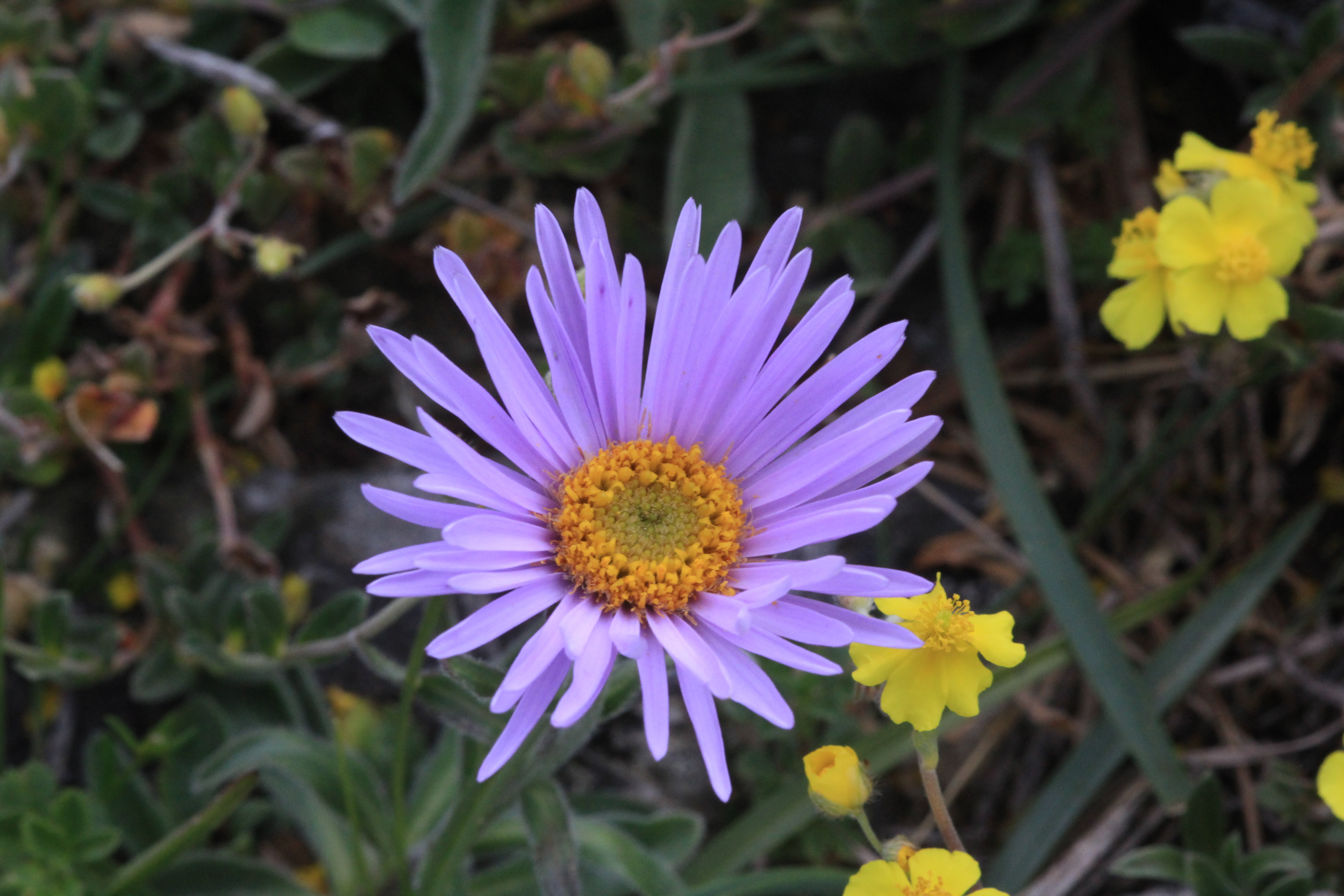 Alpine aster